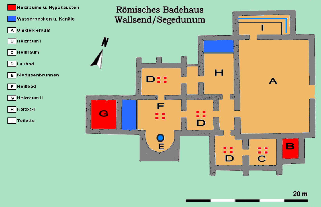 Plan of the Roman bath house in Wallsend (Segedunum), GB.